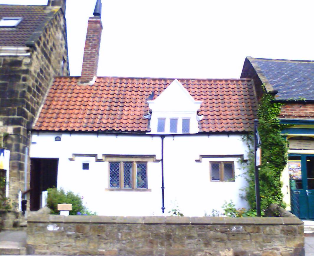 This is a photo of Winkie's Castle